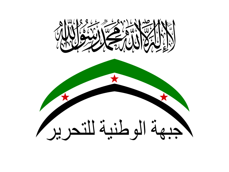 Flag of the National Front for Liberation